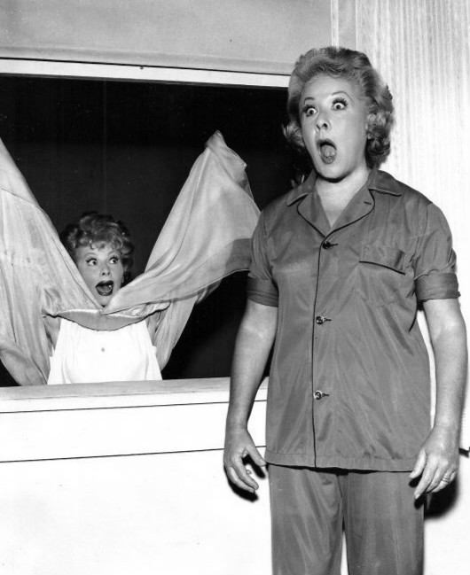 Photo of Lucille Ball and Vivian Vance from the television program The Lucy Show. Lucy tries bouncing herself into her second story window, scaring Viv in the process.